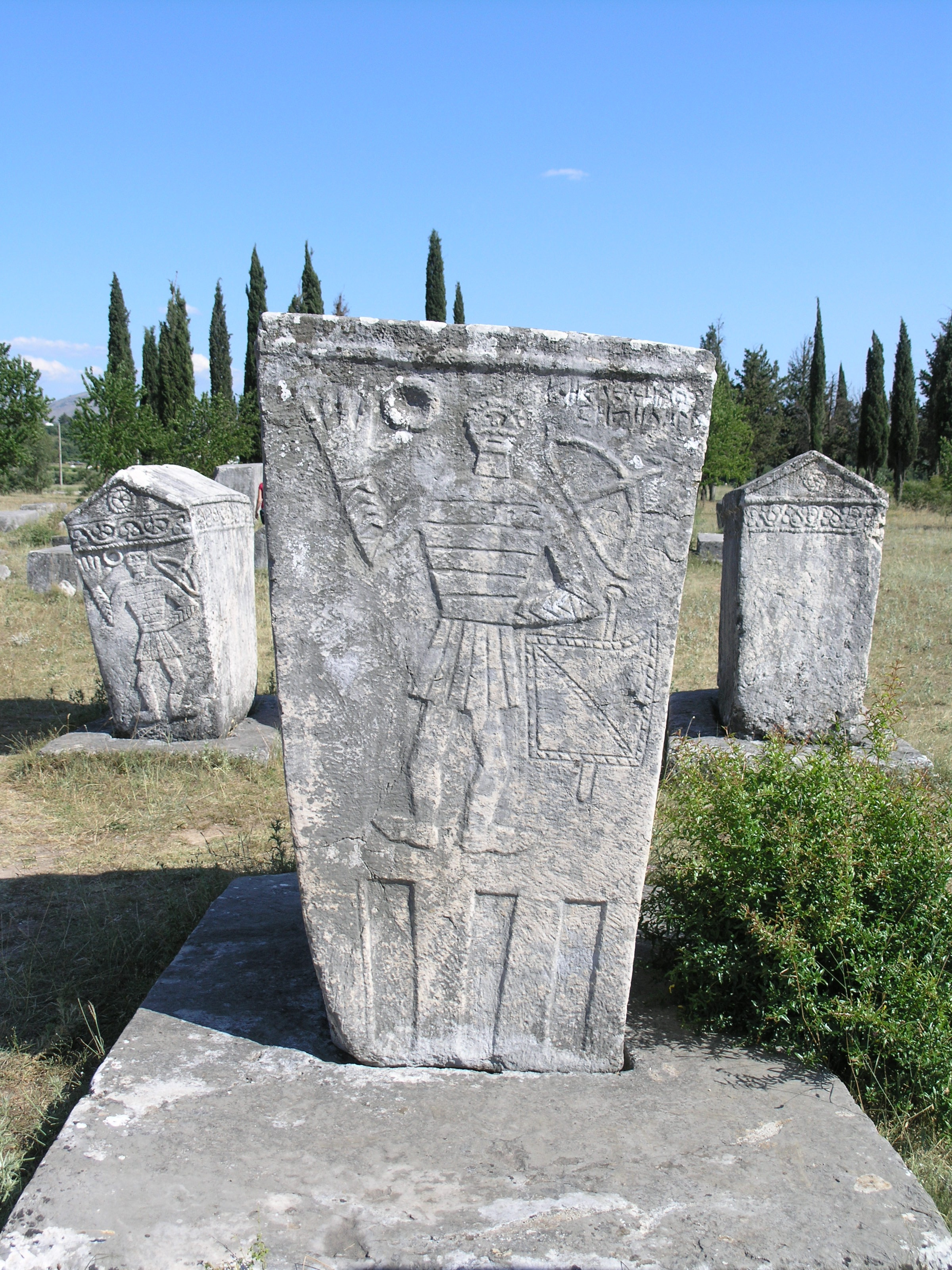 Bosnia and Herzegovina, Radimlja necropolis